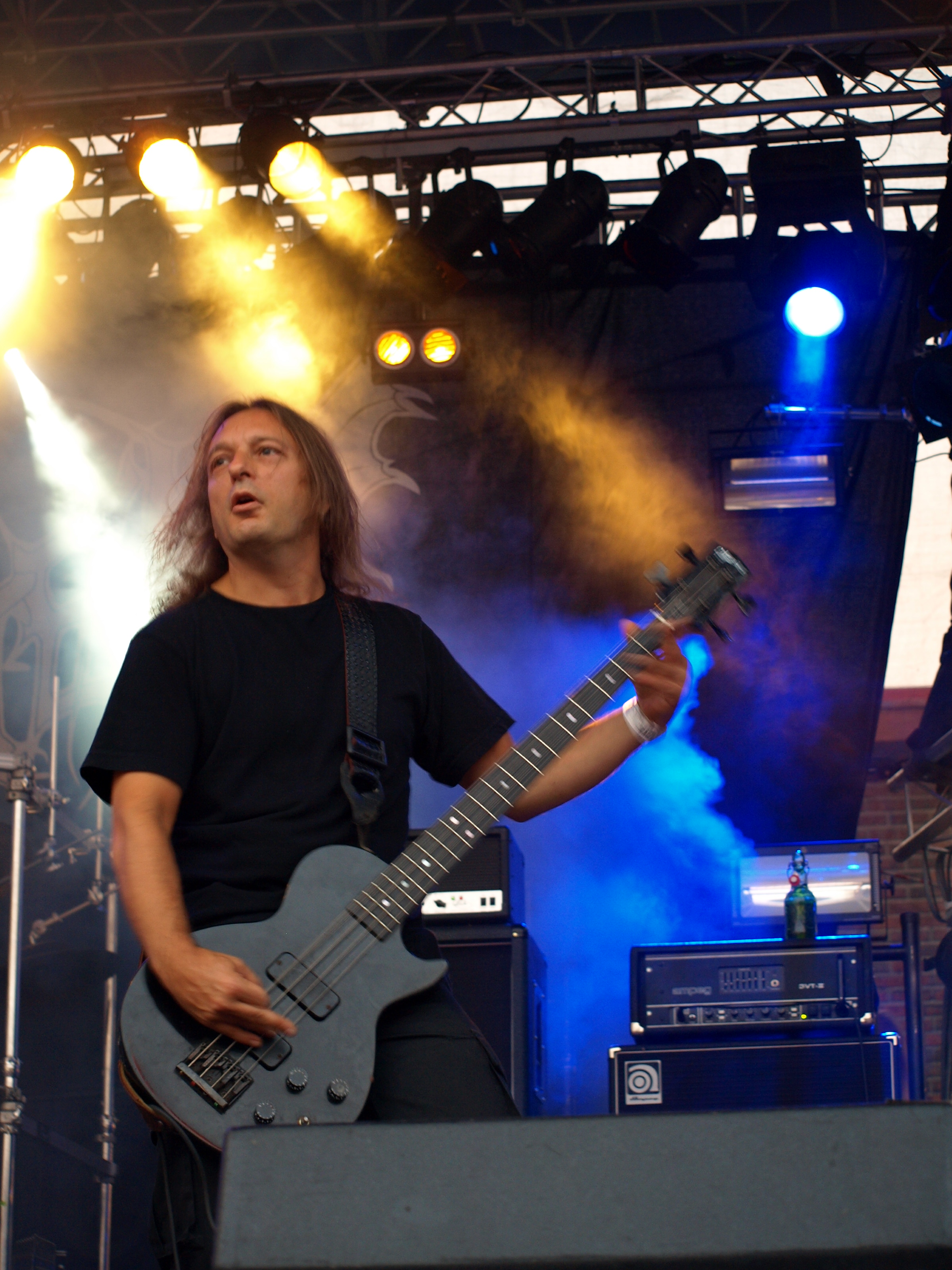 Norwegian black metal band Mayhem live at Jalometalli 2008 in Oulu.